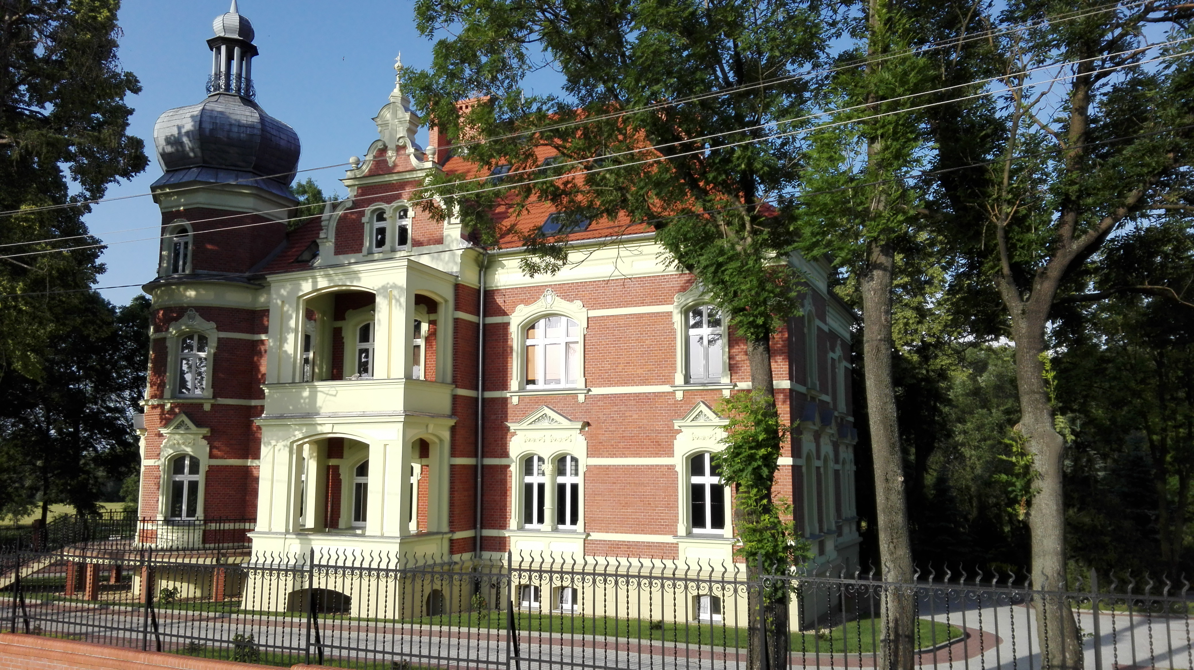 The former Fipper family minor house from the beginning of the 18th century at Poniatowski Street in Prudnik